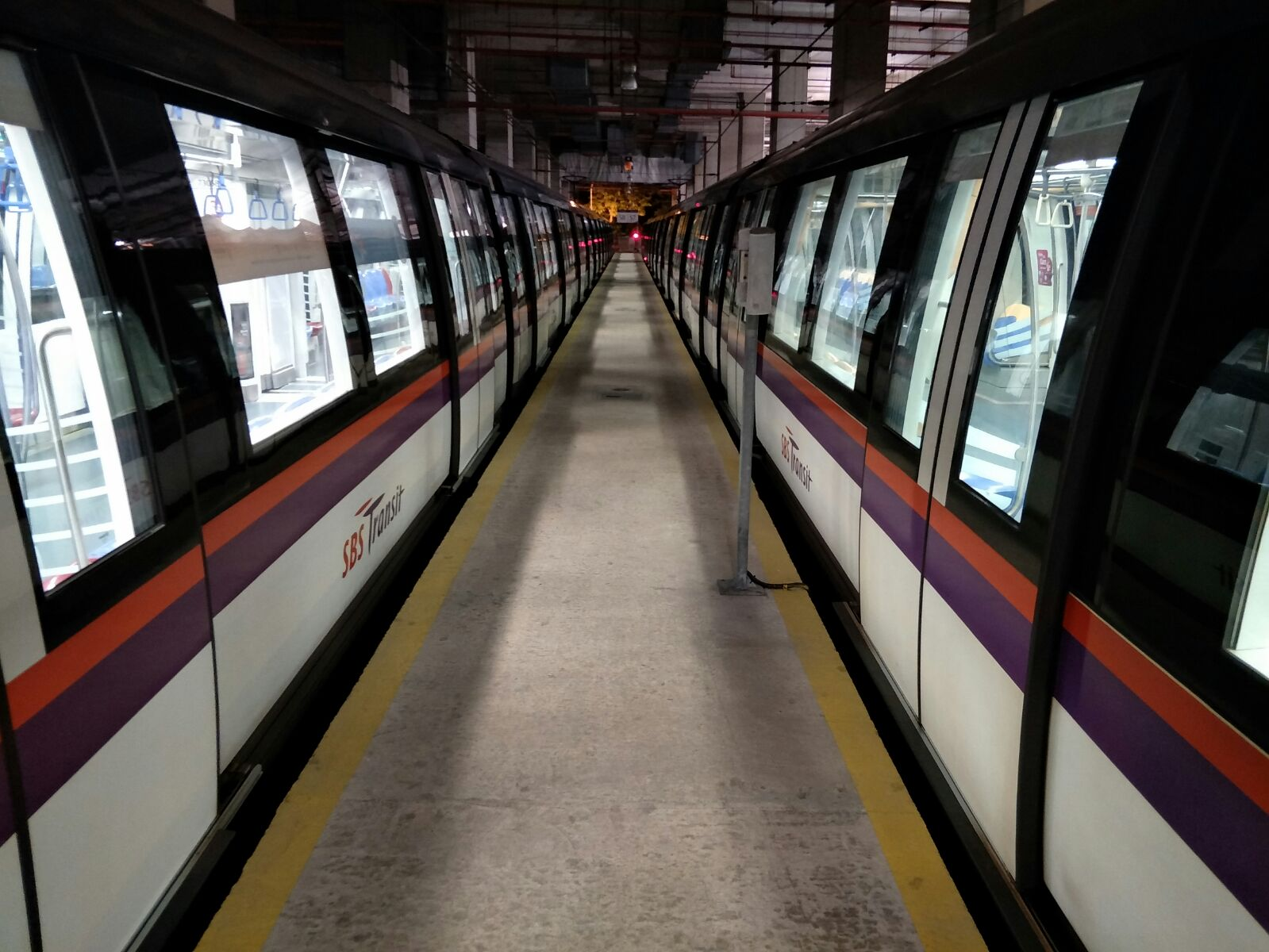 Two Alstom Metropolis trains serving the North East MRT Line stabled in Sengkang Depot, taken in July 2017.